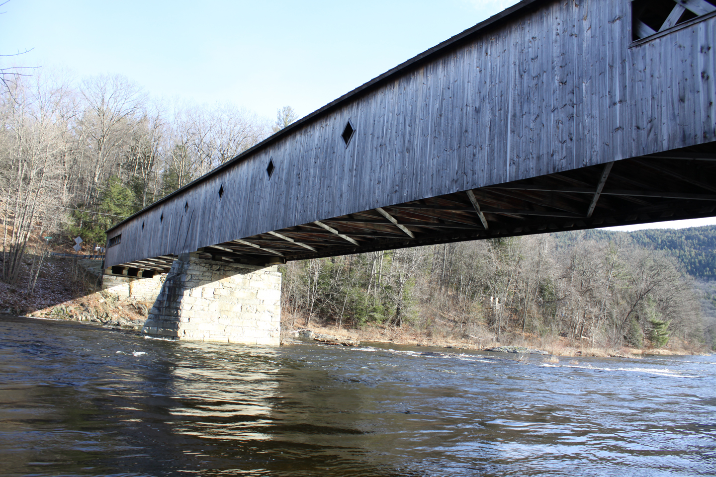 West Dummerston Covered Bridge in Vermont. Taken in December 2015